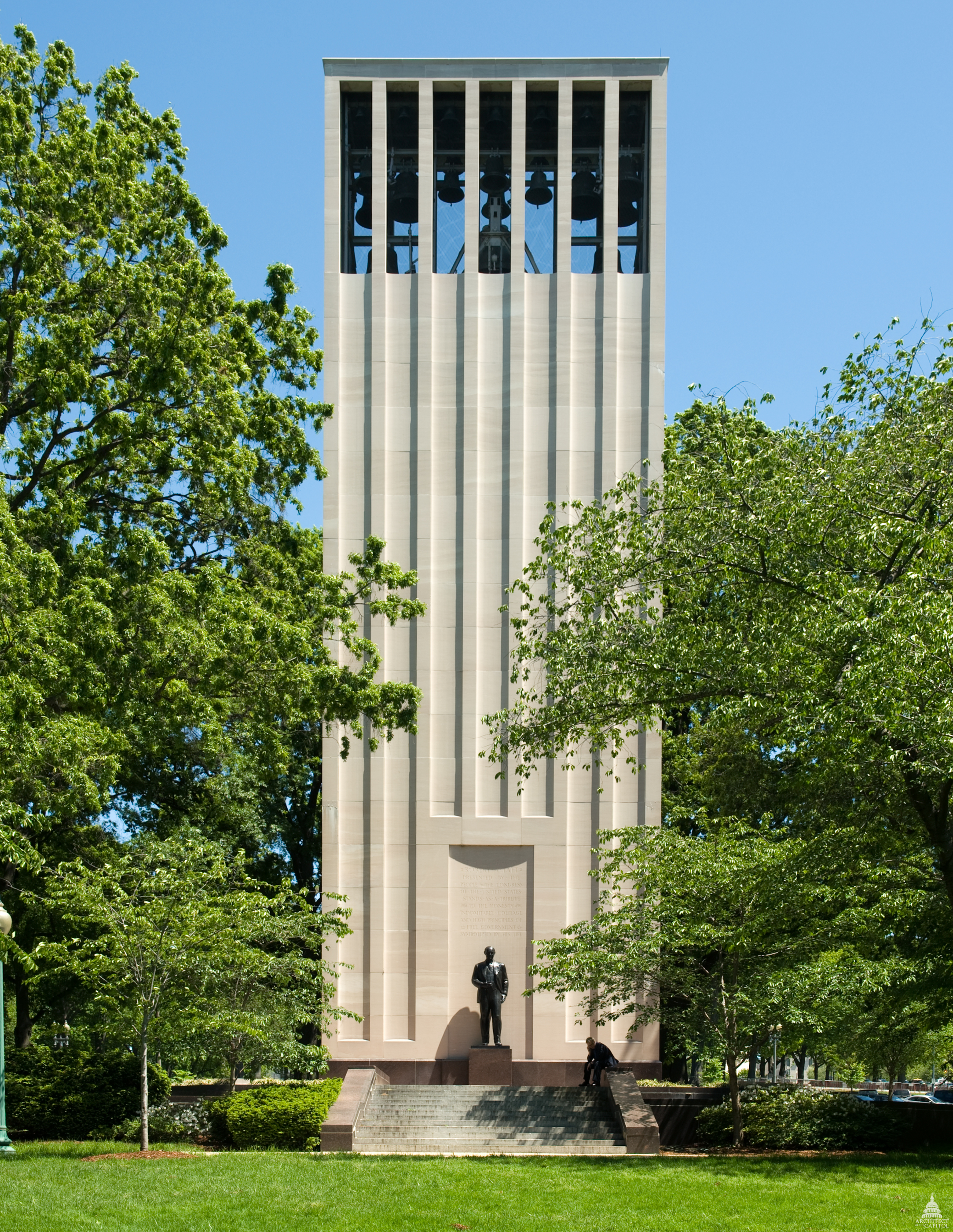 The Robert A. Taft Memorial and Carillon is located north of the Capitol, on Constitution Avenue between New Jersey Avenue and First Street, N.W. Designed by architect Douglas W. Orr, the memorial consists of a Tennessee marble tower and a 10-foot bronze statue of Senator Taft sculpted by Wheeler Williams. For more information on the Taft Memorial visit: This official Architect of the Capitol photograph is being made available for educational, scholarly, news or personal purposes (not advertising or any other commercial use). When any of these images is used the photographic credit line should read “Architect of the Capitol.” These images may not be used in any way that would imply endorsement by the Architect of the Capitol or the United States Congress of a product, service or point of view. For more information visit